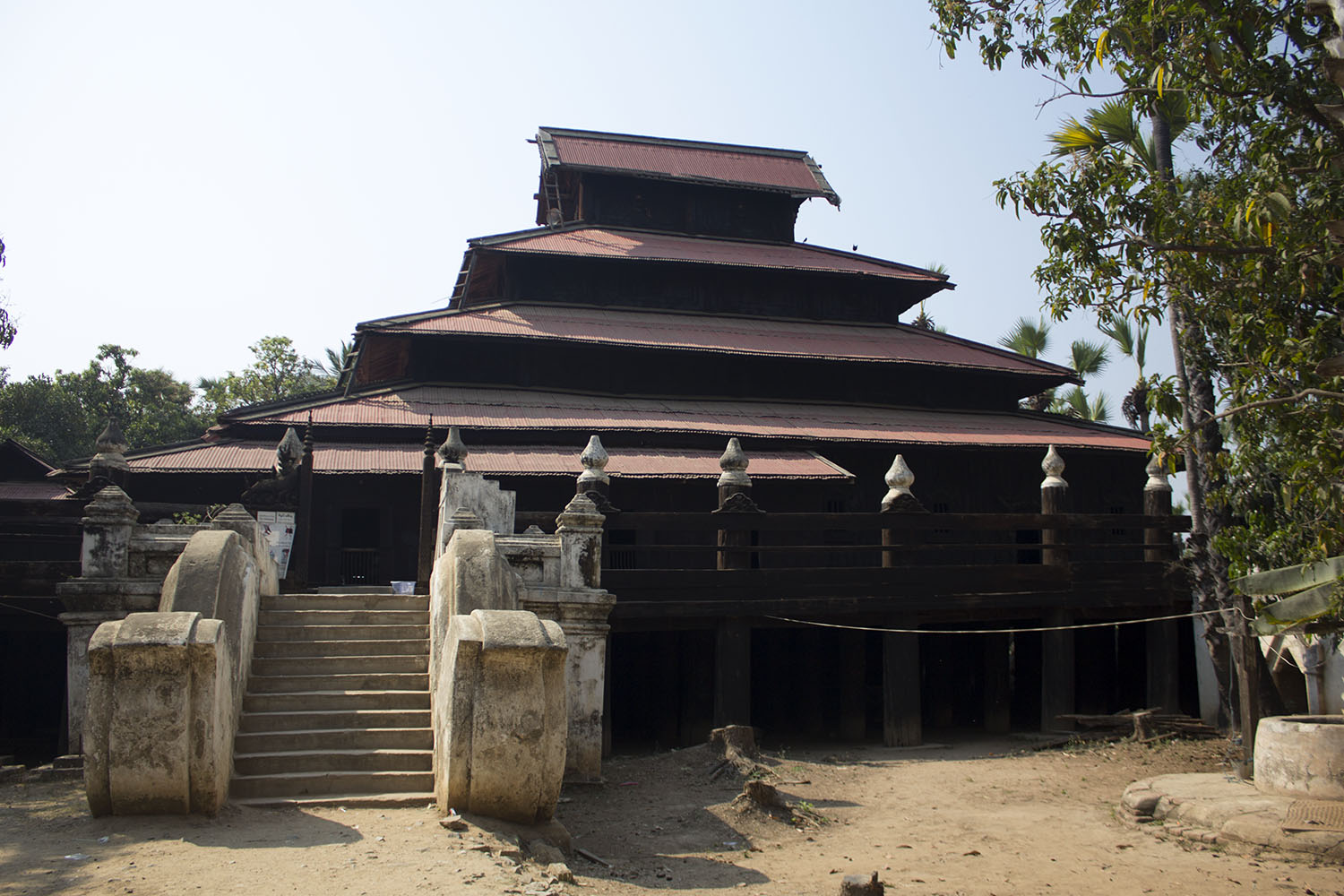 Bagaya Monastery မြန်မာဘာသာ: ဗားဂရာကျောင်း